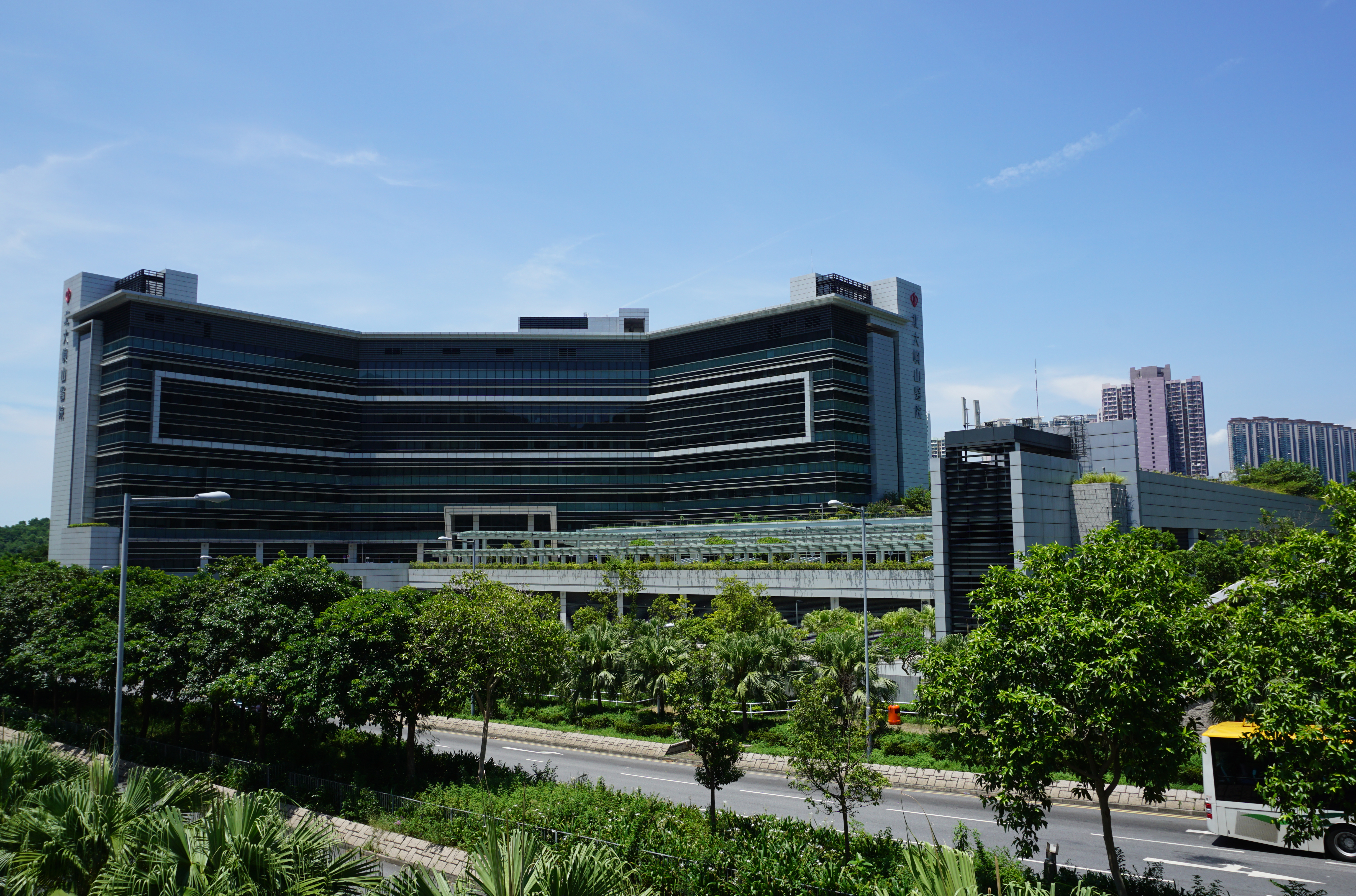 North Lantau Hospital in Tung Chung, Hong Kong.